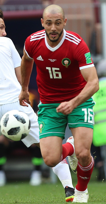 Portugal-Morocco match, 2018 FIFA World Cup